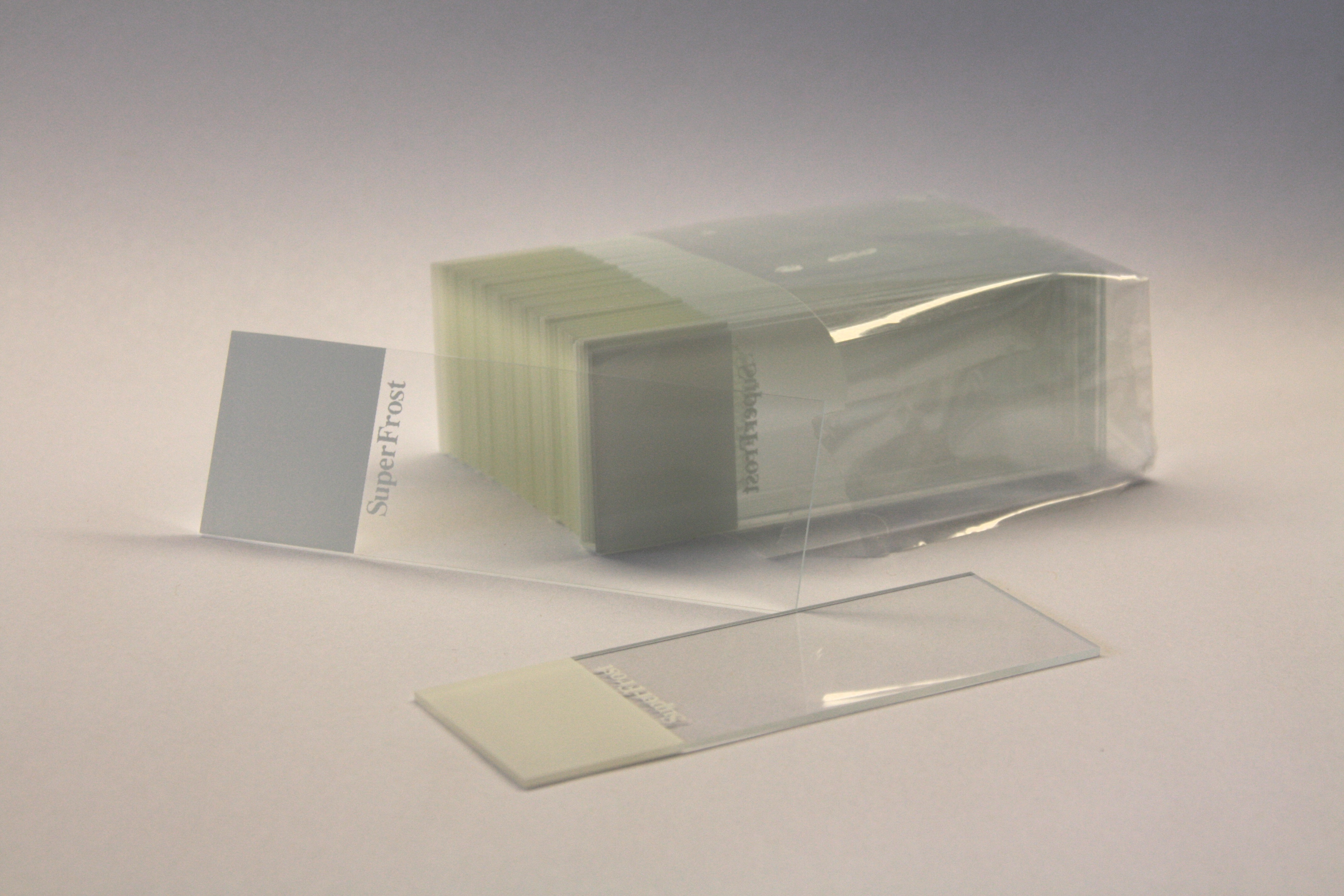 A set of standard 75 by 25 mm slides for use in light microscopy.